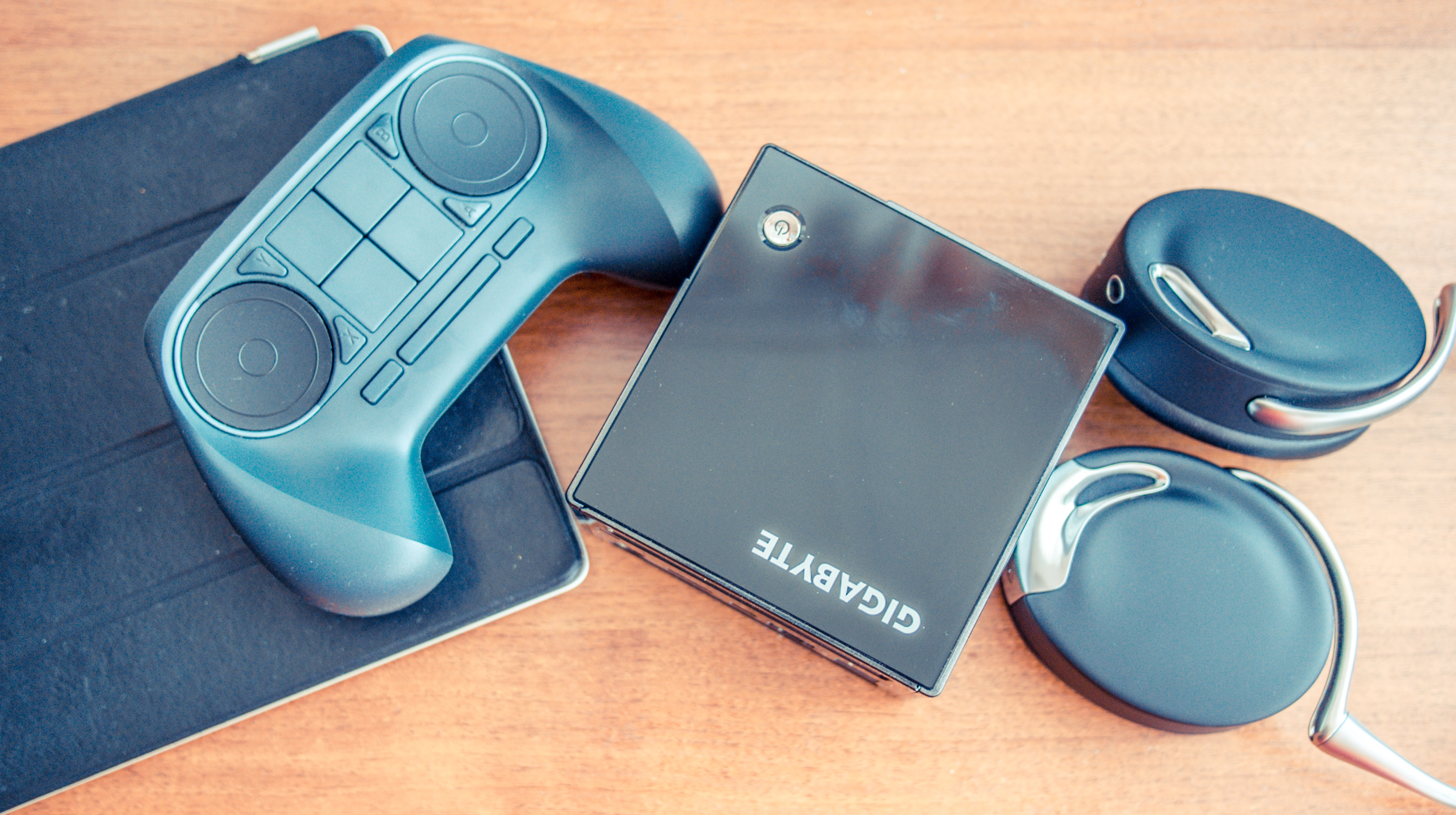 Steam Machine from Gigabyte Technology ultra compact PC and early prototype of Steam Controller.